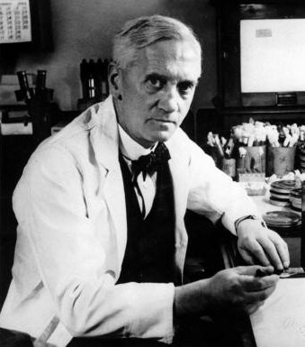 Sir Alexander Fleming, FRSE, FRS, FRCS(Eng)